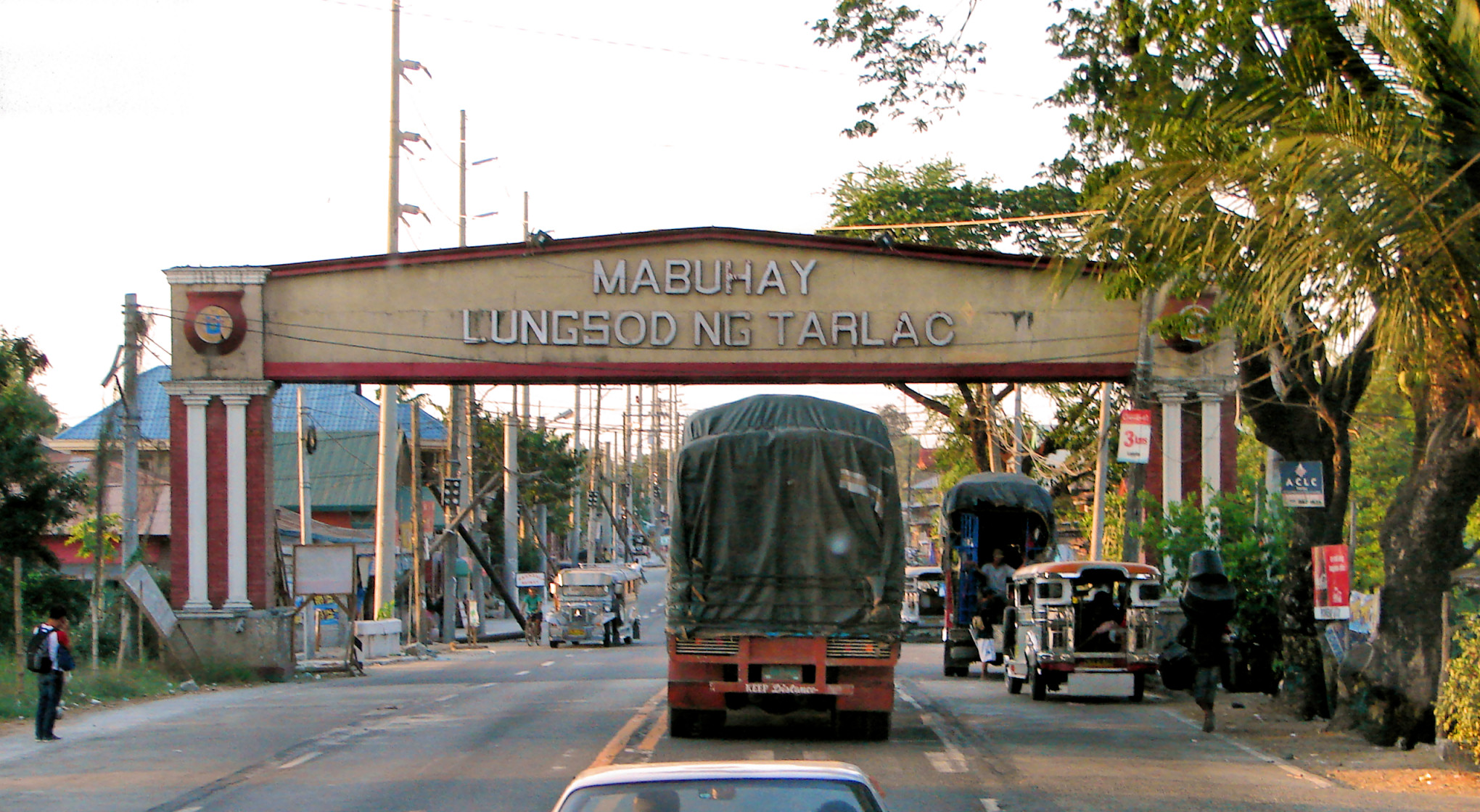 Tarlac City, Tarlac, Philippines